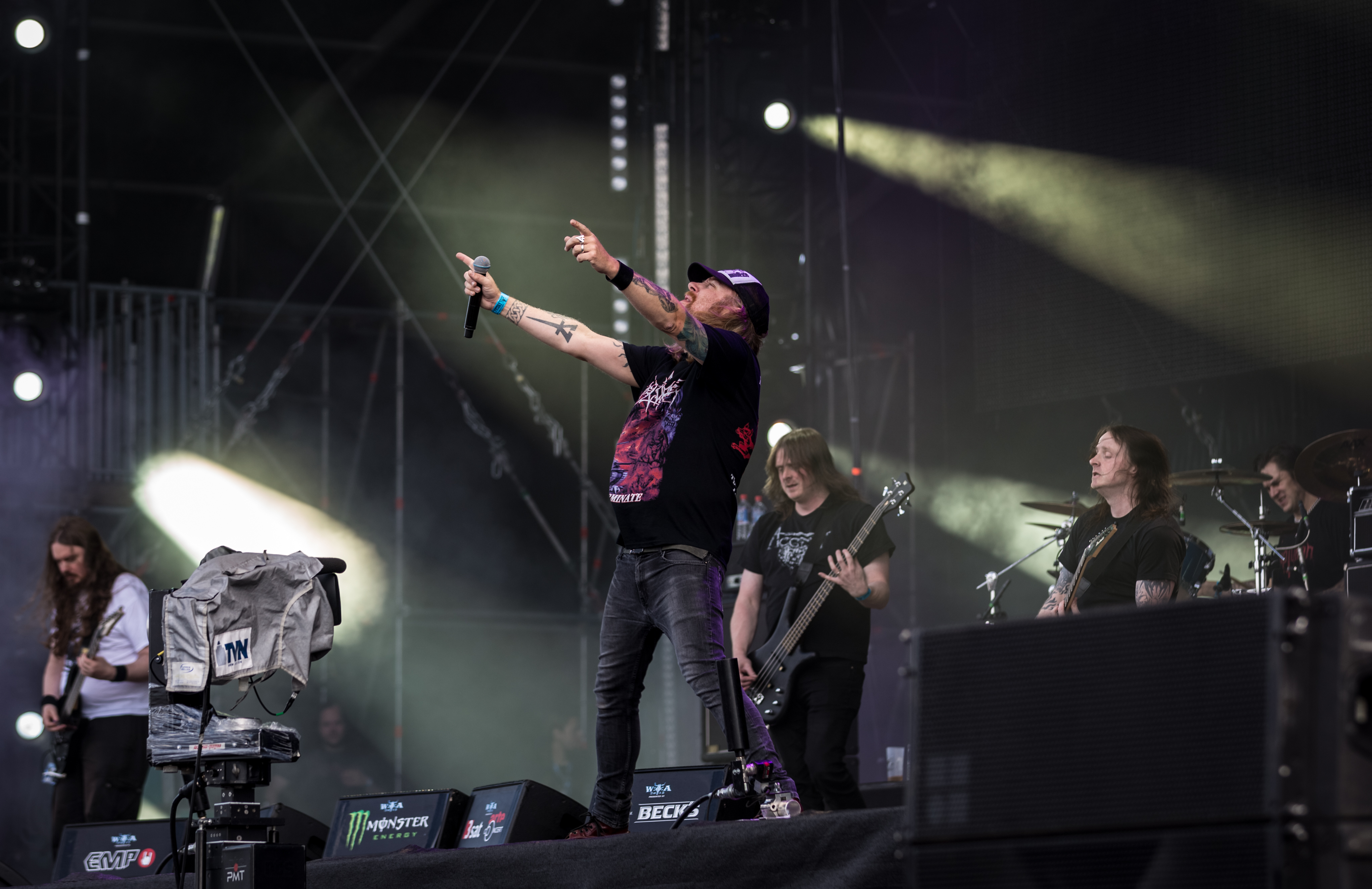 At The Gates - Wacken Open Air 2015